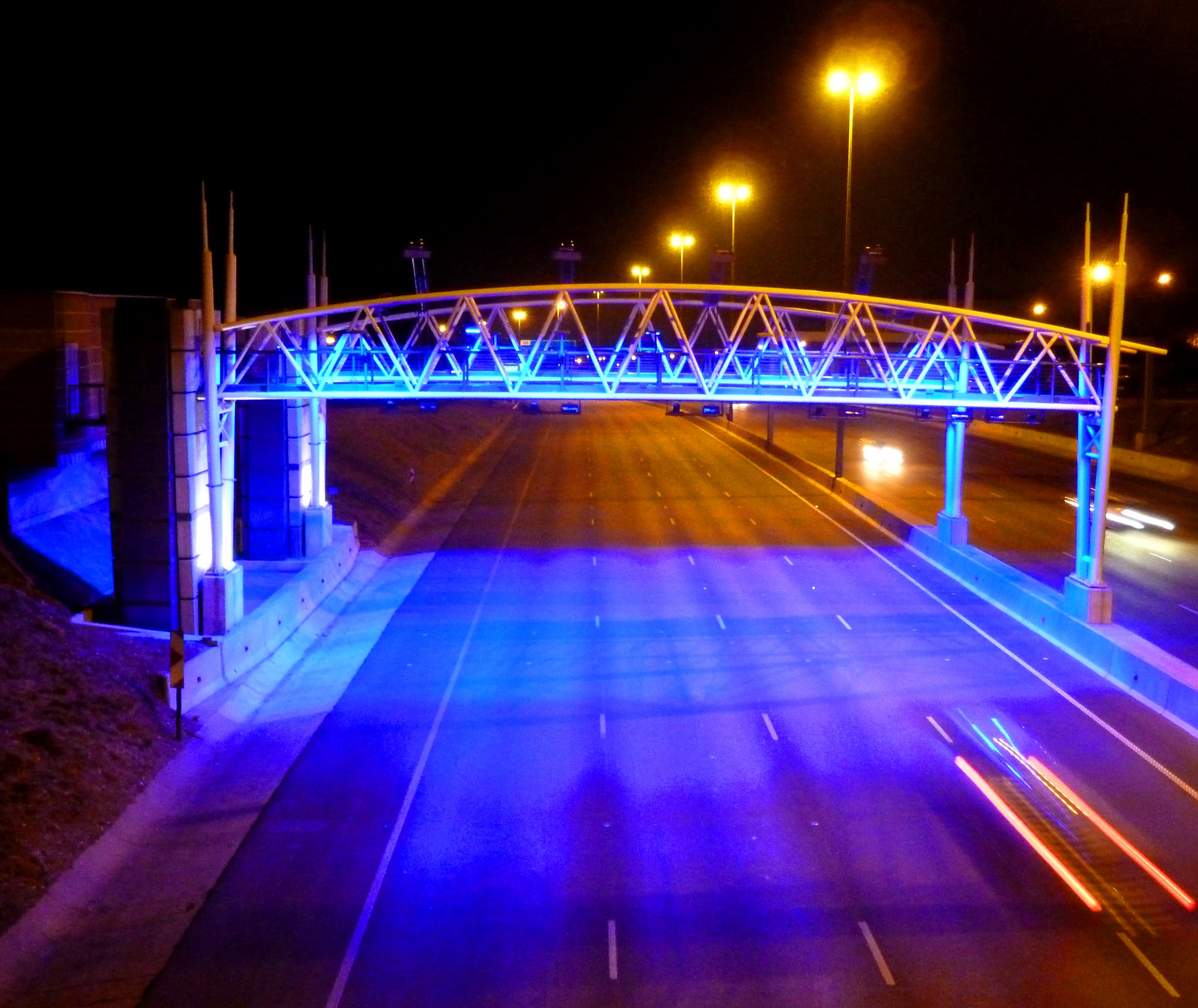 Gantry TG001 Barbet on the N1 north, in Lynnwood, Pretoria